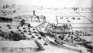 Guardhouse family estate, Rexdale and Indian Line (Hwy 27) in 1878